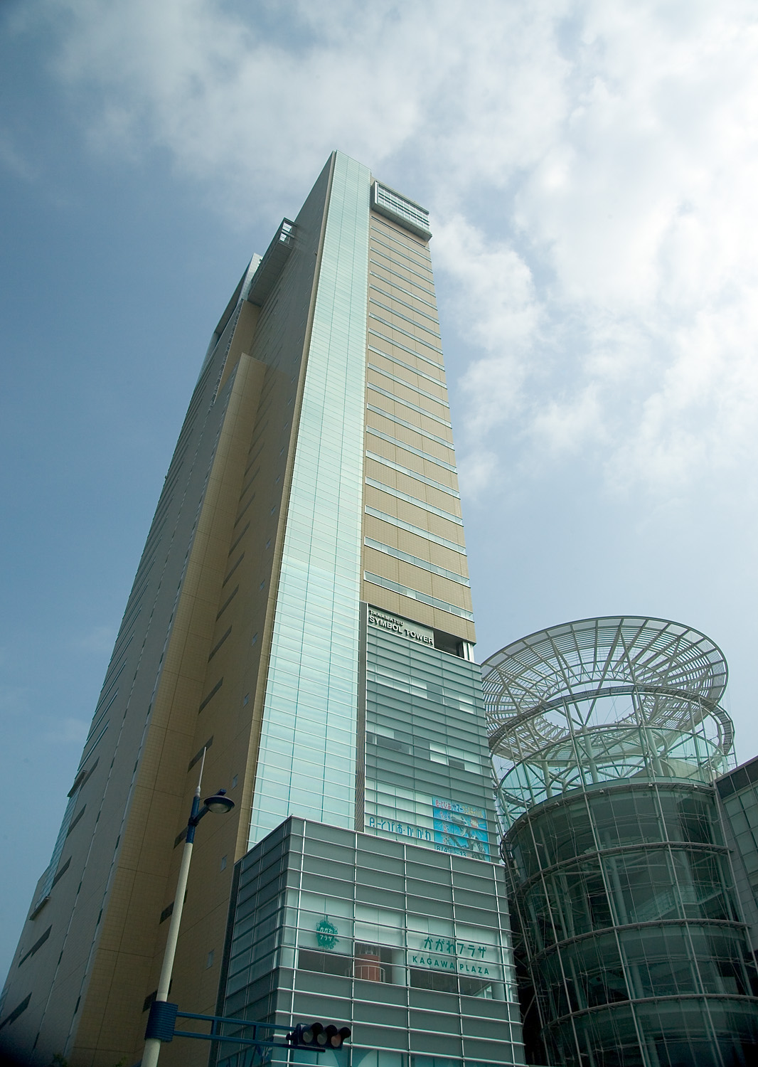 The skyscraper in this photograph is the 30 story Takamatsu Symbol Tower, part of the Sunport Takamatsu redevelopment complex in the city of Takamatsu, Kagawa Prefecture, Japan. I took the photo and contribute my rights in the file to the public domain; people and organizations retain rights to images in it.